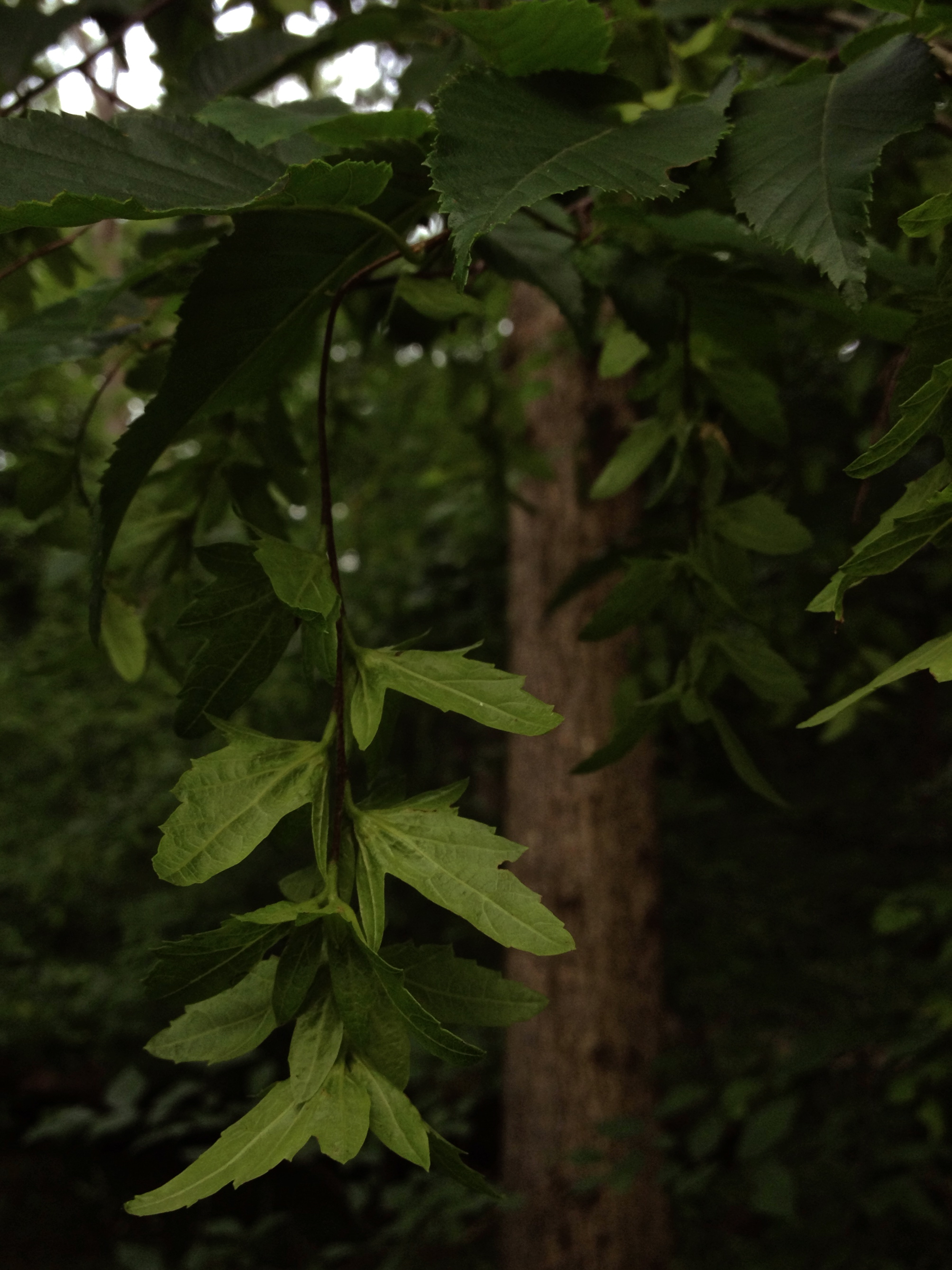 Photo of Carpinus caroliniana in fruit. This is a native plant growing wild in the C & O Canal National Historical Park, in Montgomery county Maryland, USA. This species is a member of the Betulaceae family.